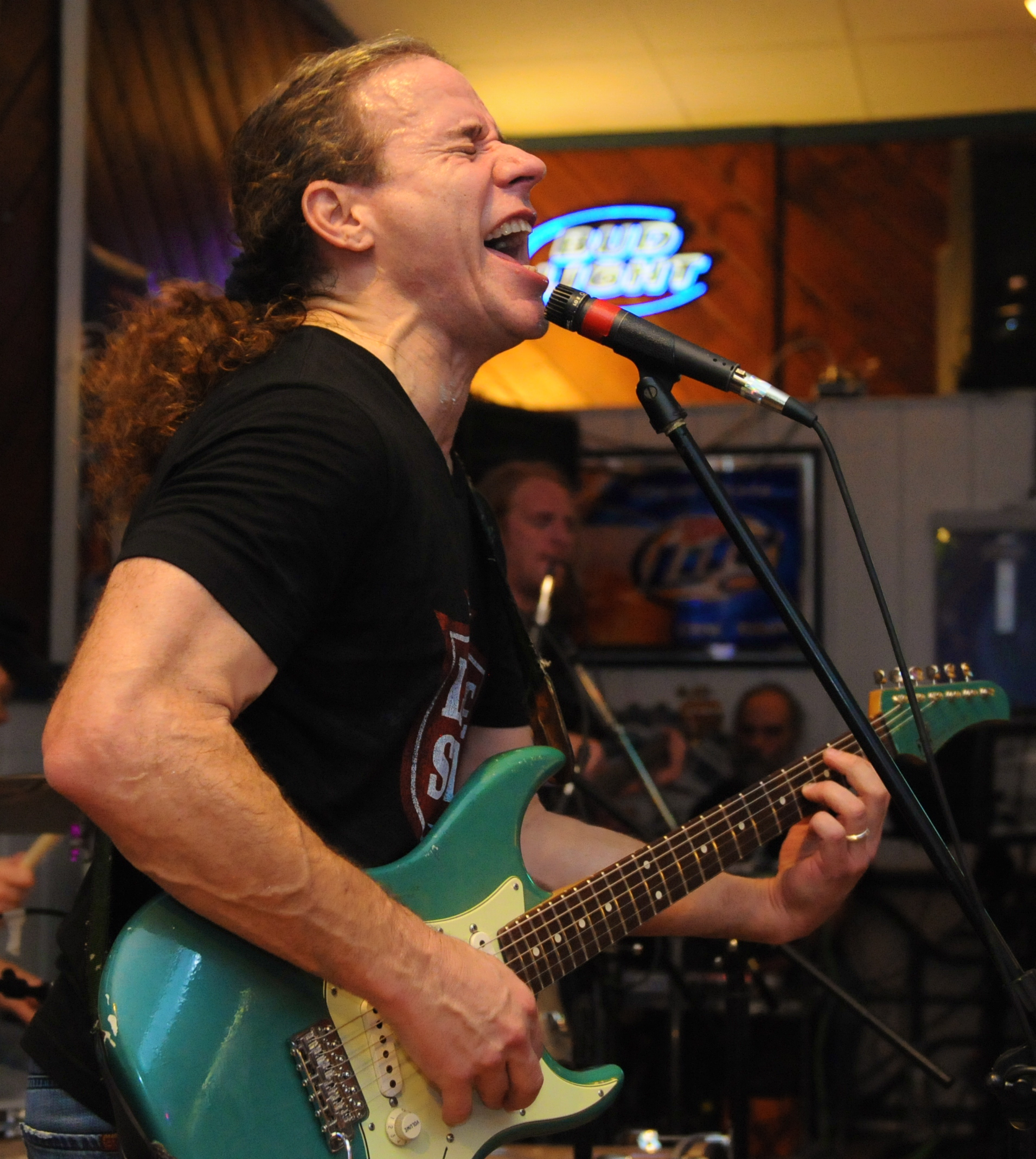 Chris Duarte playing Xotic Guitars model XS-1 Friday November 9, 2012 at Alamo Cafe, Brockton, MA. Chris Duarte Group (CDG) this outing includes Dave Anthony: Drums, Dustin Sargent: Bass.